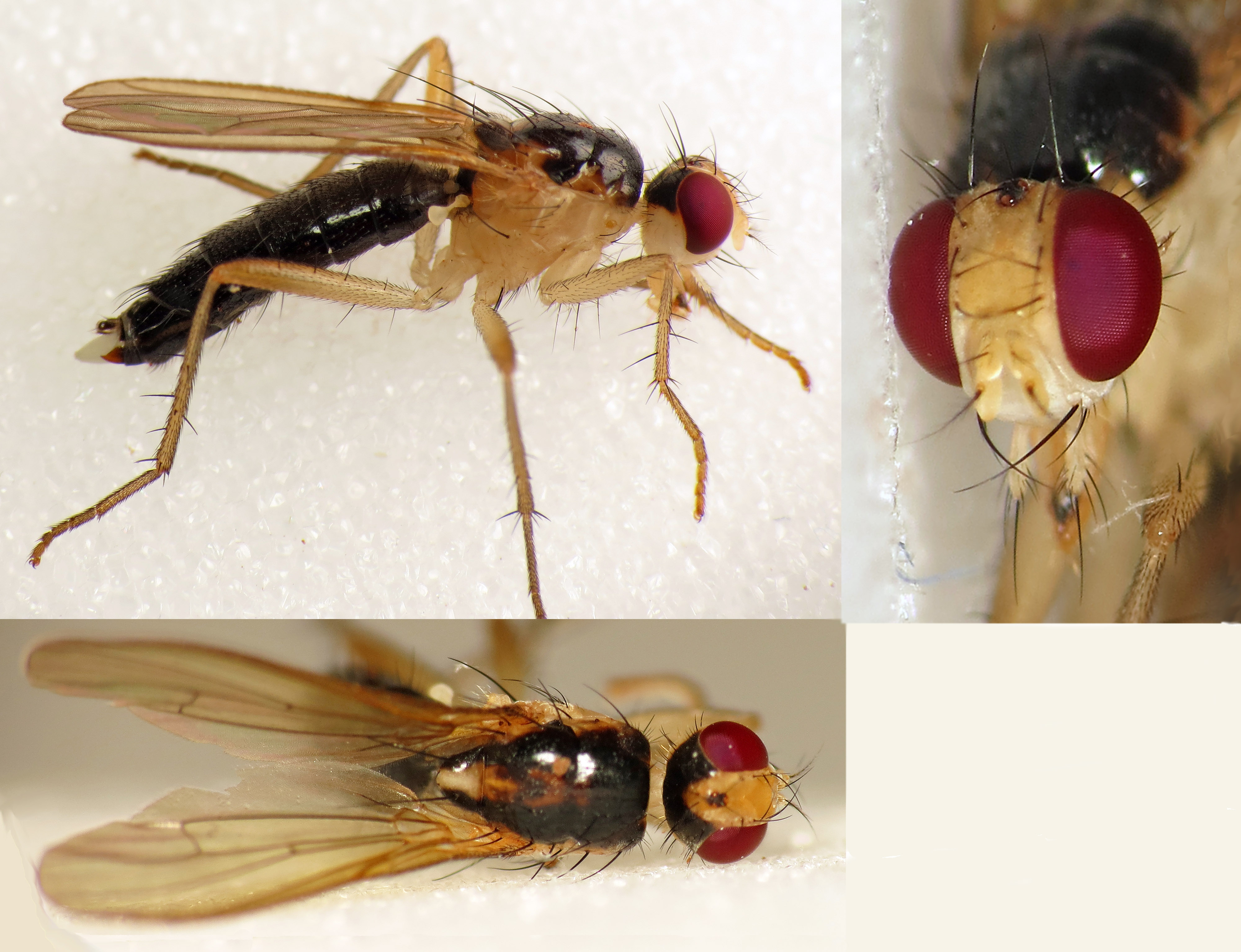 ID thanks to mossnisse, Found in a hedgerow near a stream. No records for East Suffolk on NBN Gateway. Details for the record Date: 15-July-2014 Location: Martlesham Recreation Ground, East Suffolk TM252473